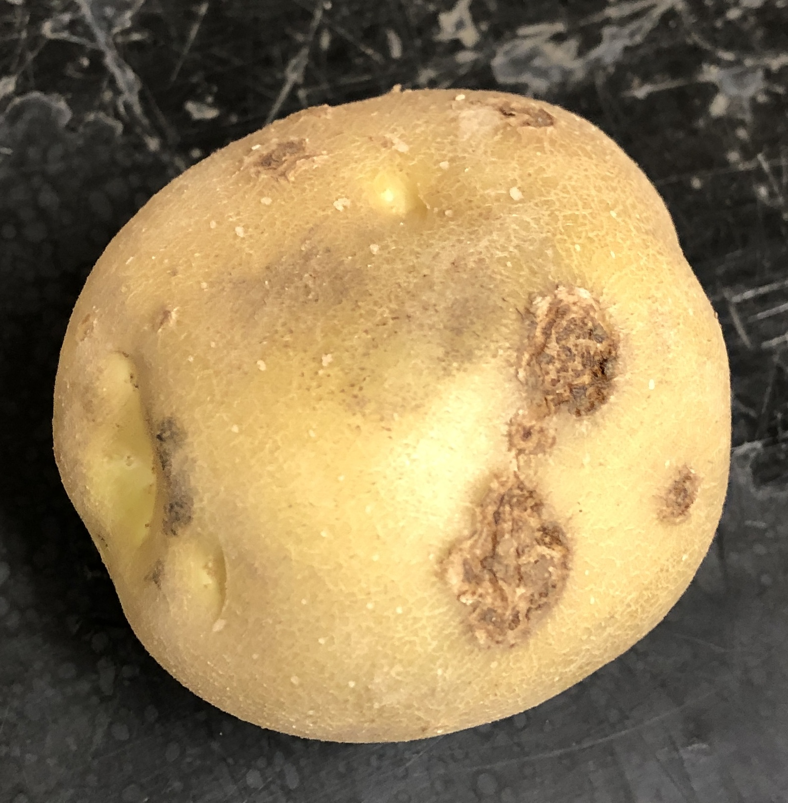 Symptoms seen for common scab of Potato